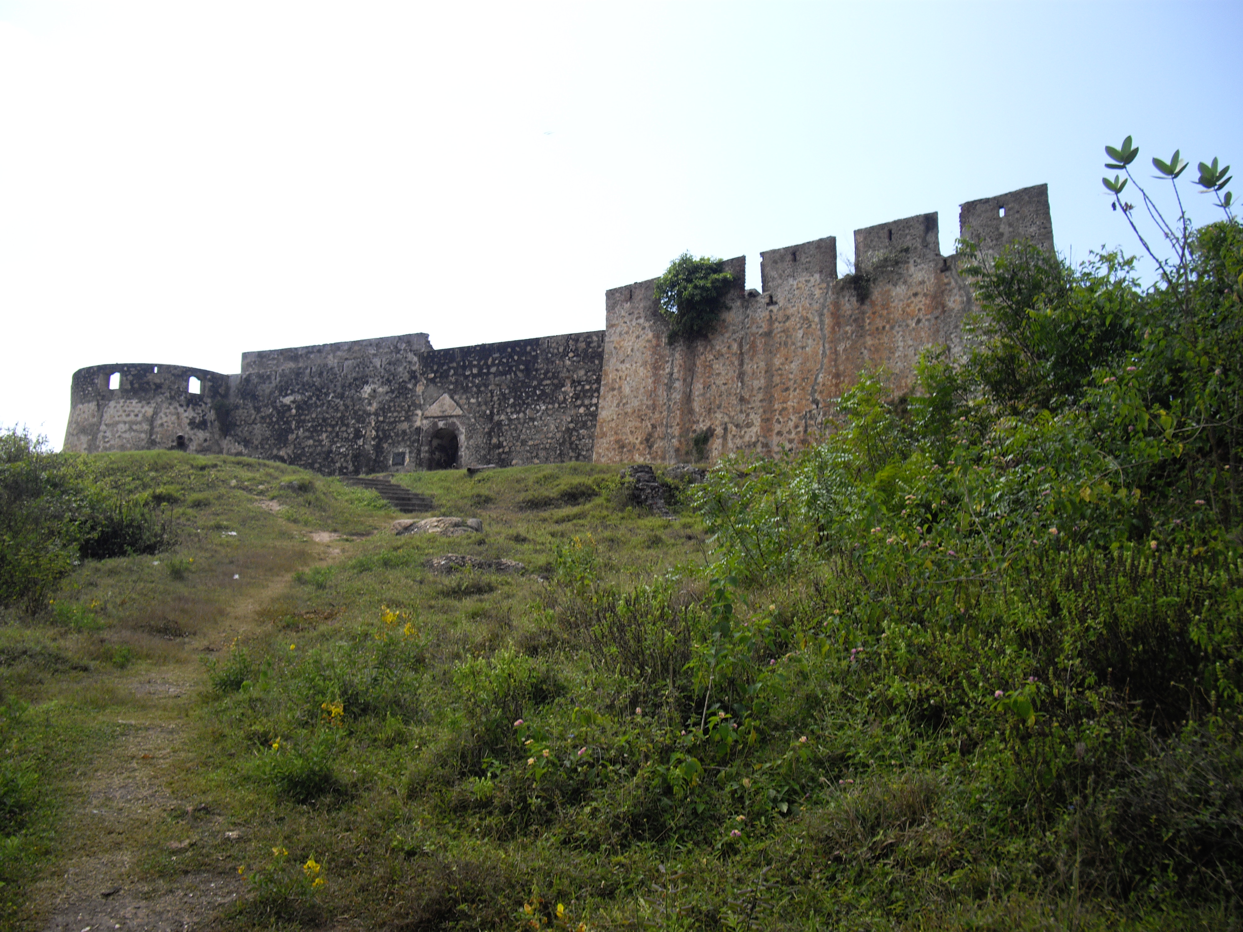 Fort on the Dutch Gold Coast (Ghana), picture taken in 2011